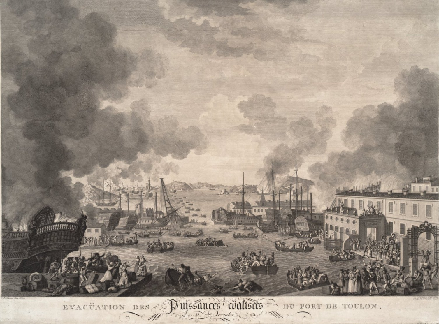 The armed coalition against France evacuated the port of Toulon in 1793. Fire of part of the French fleet and the arsenal.